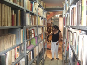 En esta residencia, Denegre resguardó la colección de literatura mexicana más grande.